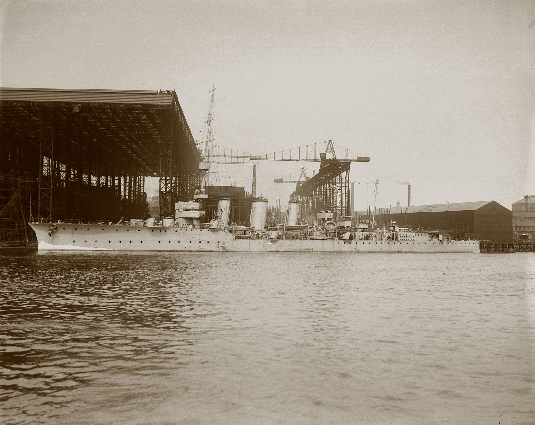 View of HMS Comus alongside Swan Hunter & Wigham Richardson shipyard, seen from south side of River Tyne, c1915 (TWAM ref. DS.SWH/5/3/4/2/B187). HMS Comus was launched on 16 December 1914 at the Wallsend Yard of Swan Hunter & Wigham Richardson. She was a C-class light cruiser and took part in the Battle of Jutland. The Rivers Tyne and Wear were responsible for building many vessels, which served Britain during the First World War. This set remembers some of those warships that took part in the Battle of Jutland from 31 May to 1 June 1916. During the battle over 6,000 British sailors lost their lives and 14 Royal Naval vessels were sunk. The losses included the battlecruisers HMS Queen Mary and HMS Invincible, as well as the destroyers HMS Shark, HMS Sparrowhawk and HMS Turbulent, all built on Tyneside. Their memory lives on. (Copyright) We're happy for you to share these digital images within the spirit of The Commons. Please cite 'Tyne & Wear Archives & Museums' when reusing. Certain restrictions on high quality reproductions and commercial use of the original physical version apply though; if you're unsure please